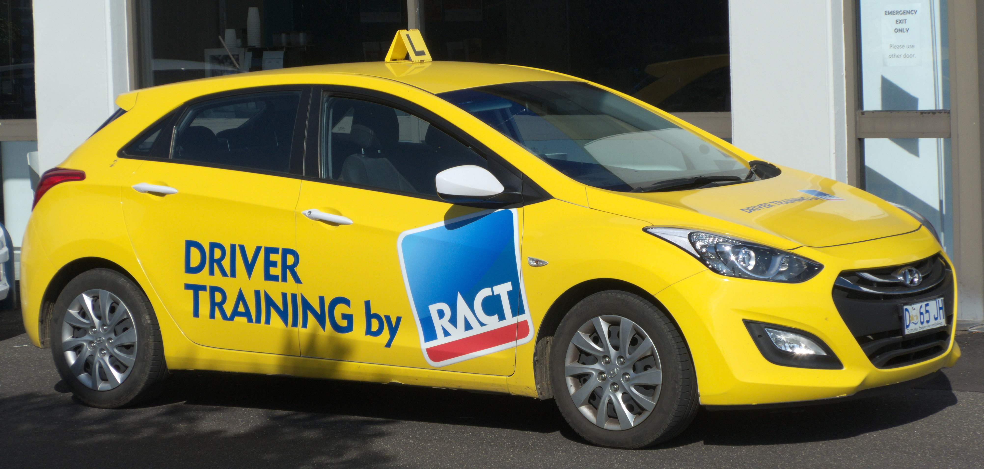 Royal Automobile Club of Tasmania (RACT) driver training car outside their office in Burnie.